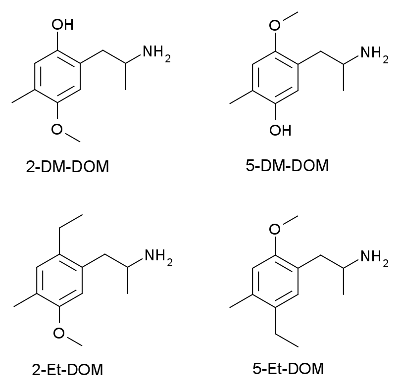 Structures of 2-DM-DOM, 5-DM-DOM, 2-Et-DOM and 5-Et-DOM